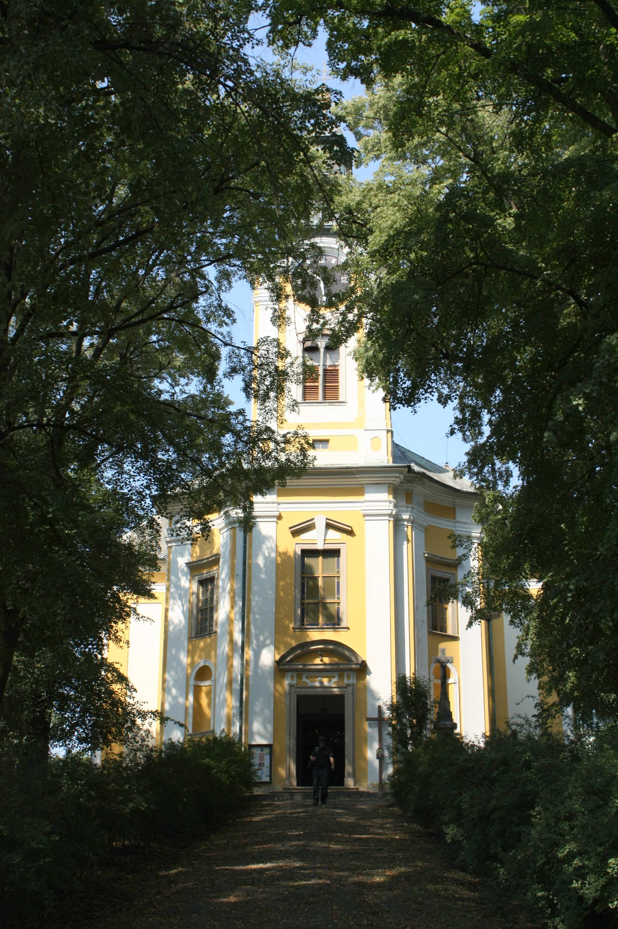 Žeravice, Hodonín district, Czech Republic - baroque church of the Beheading of Saint John the Baptist (1722)